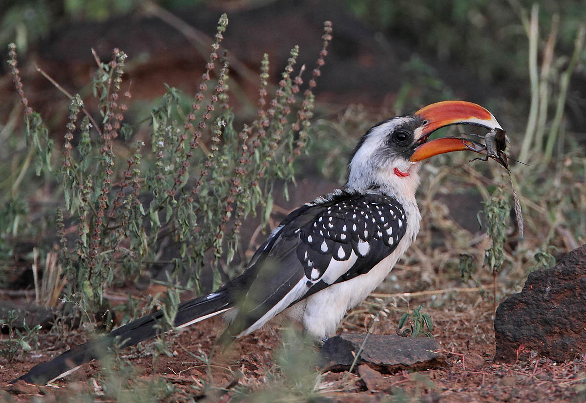 A male Jackson's Hornbill in Kenya.